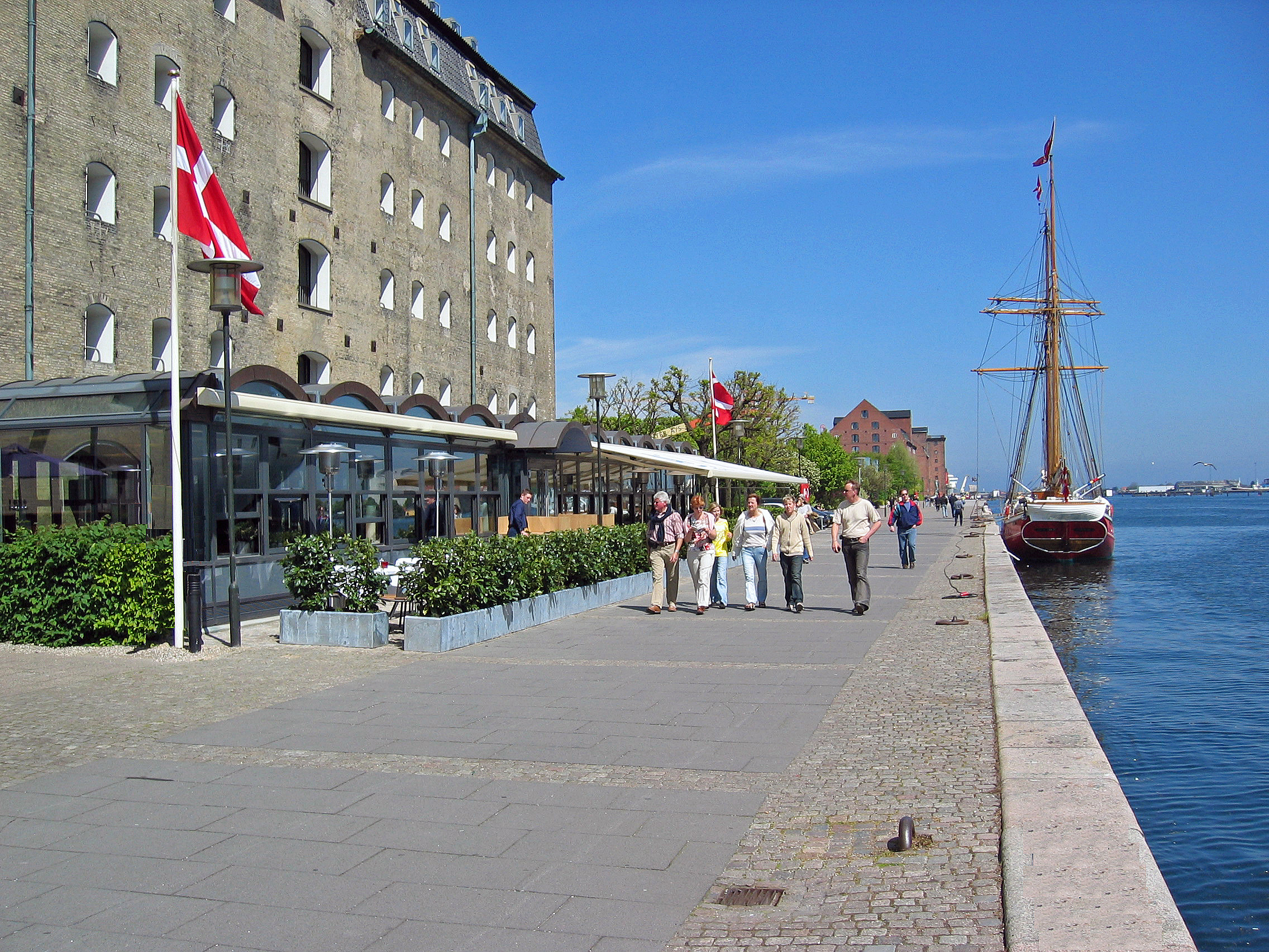 This is the front of Admiral Hotel as it looks today.